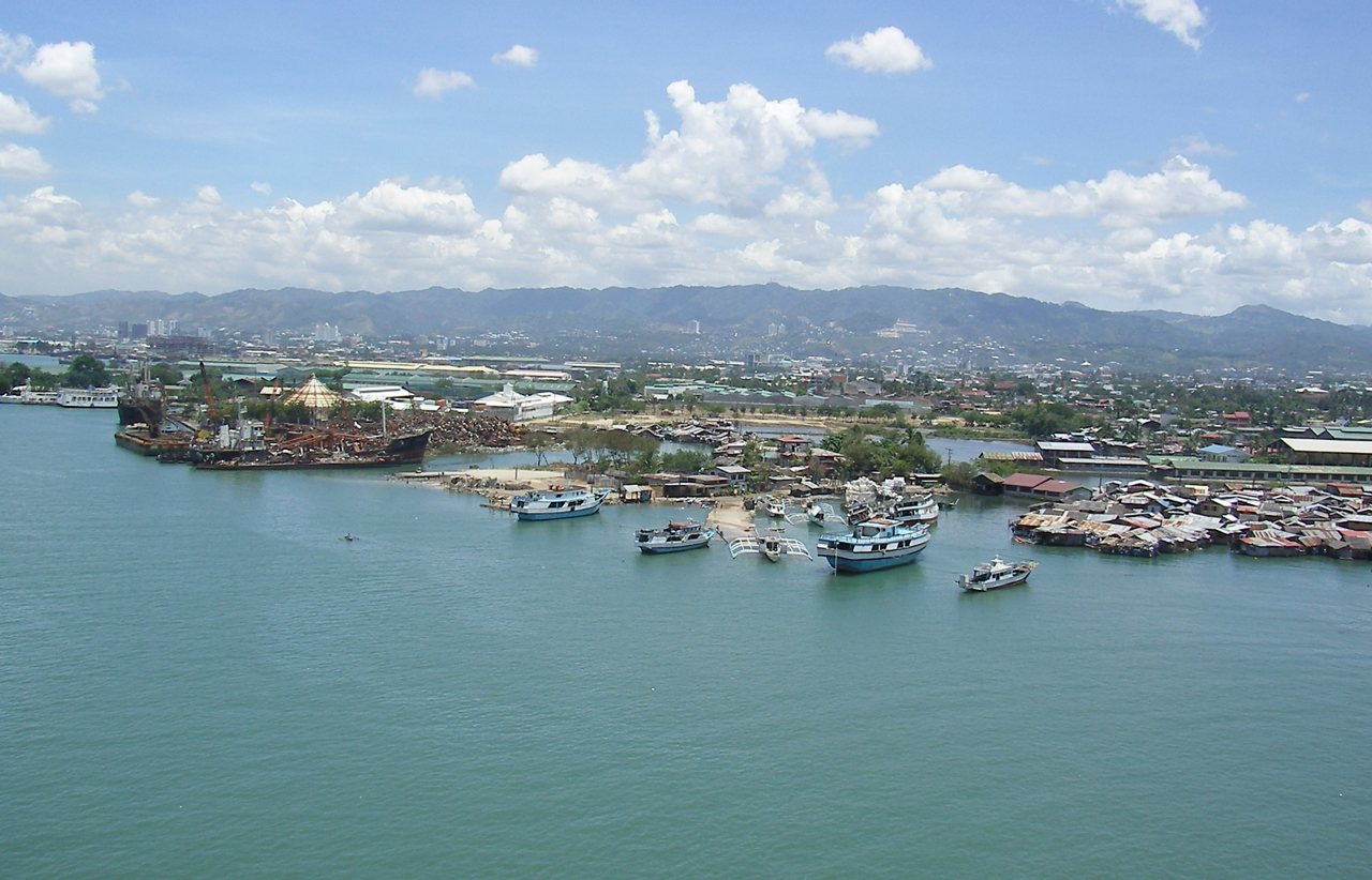 Mandaue City with Cebu City in the background, Philippines, seen from the sea Author: Peter Binter; photographed on April 30th 2006